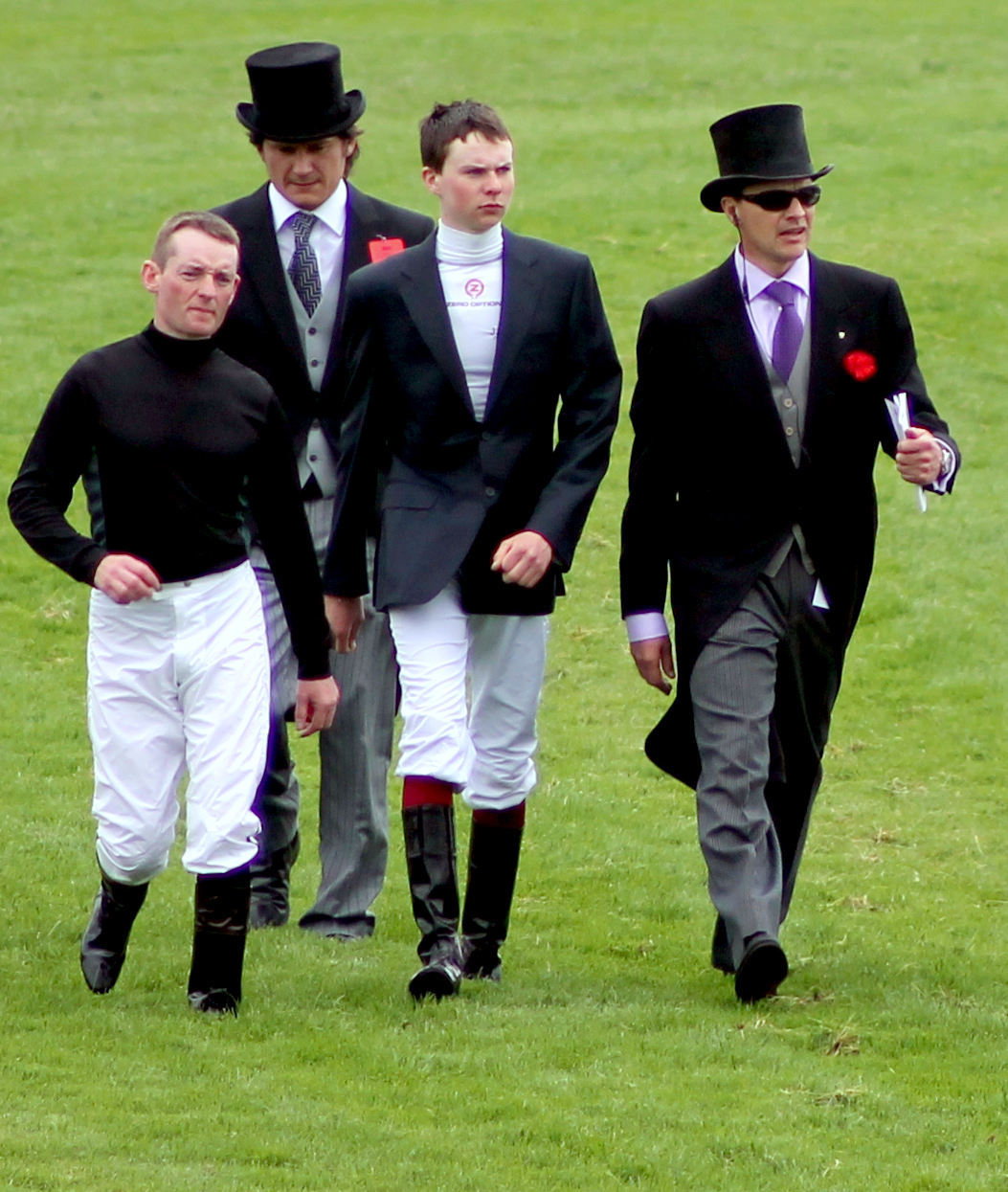 Joseph O'Brien preparing for the biggest day of his career